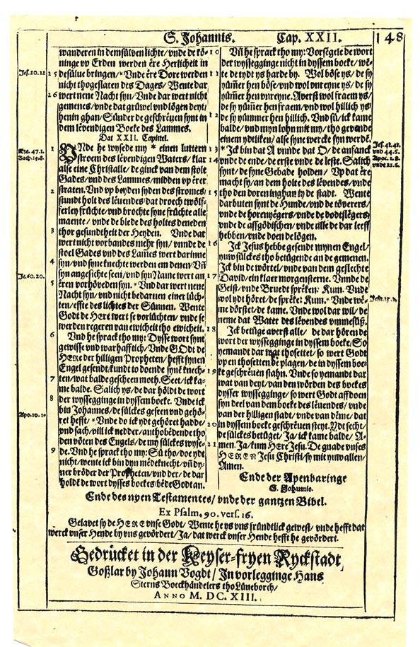 A photo of a page in Revelation of John in 1614 Low German Bible from Boerne Public Library.